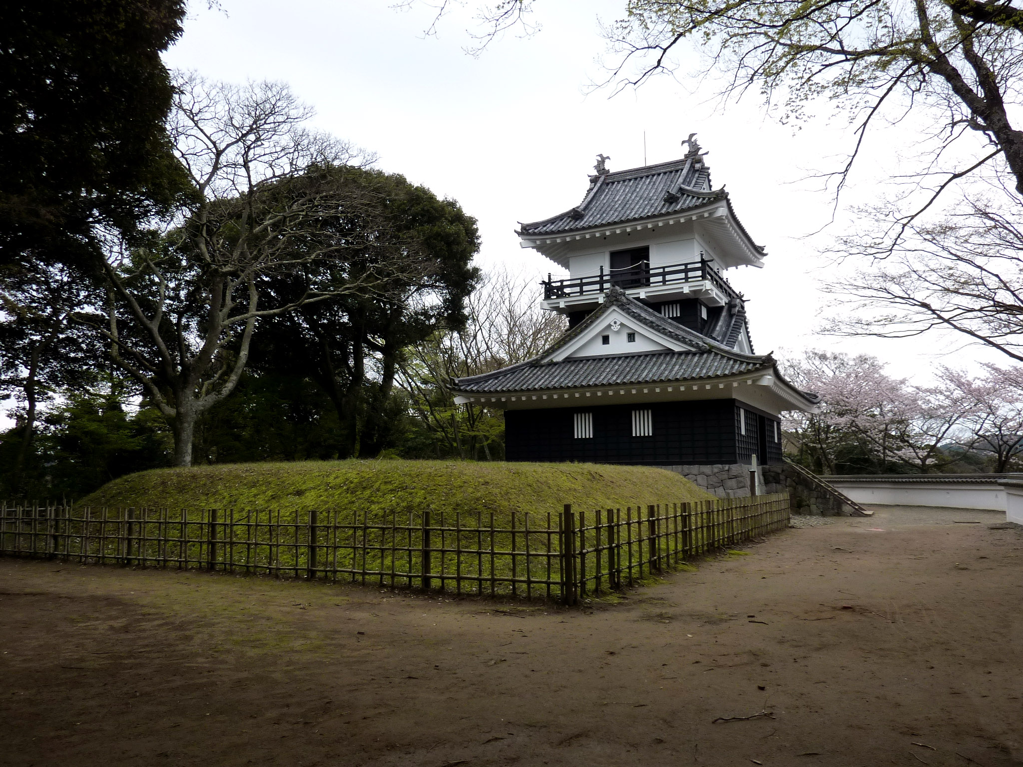 Kururi Castle reconstructed donjon, Kimitsu, Chiba, Japan